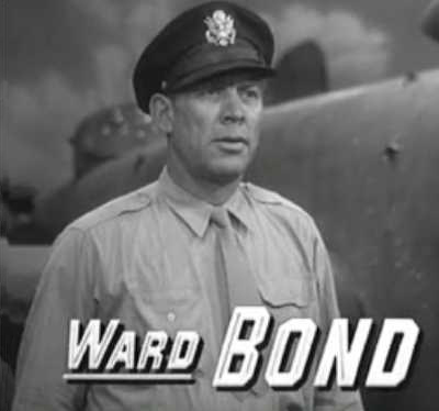 Cropped screenshot of Ward Bond from the trailer for the film A Guy Named Joe